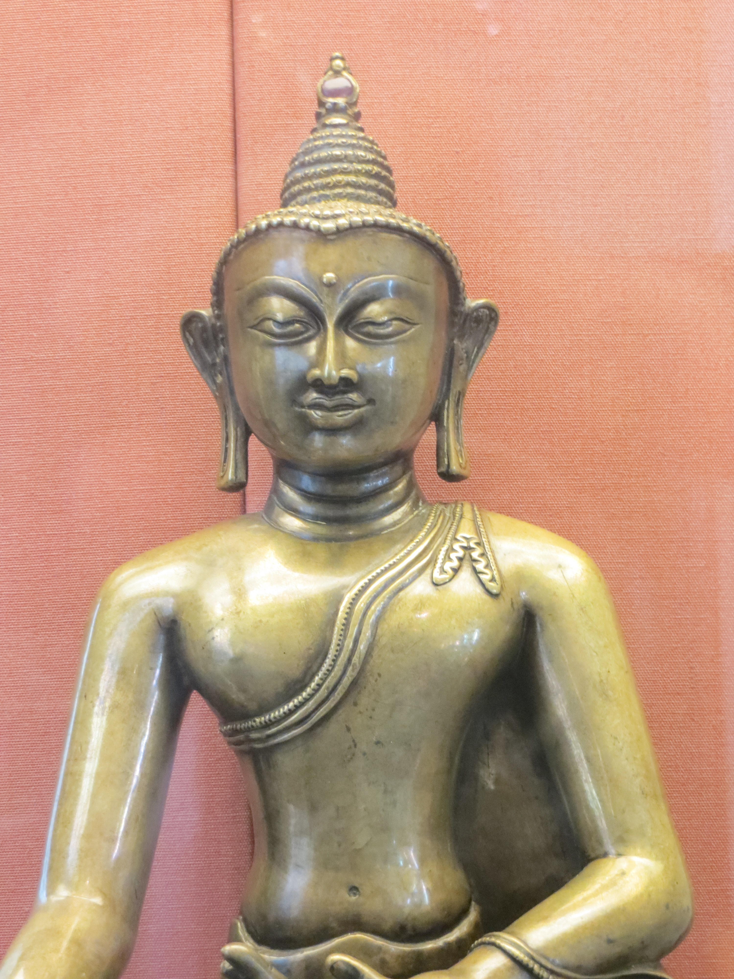 Tibetan Buddha in the British Museum